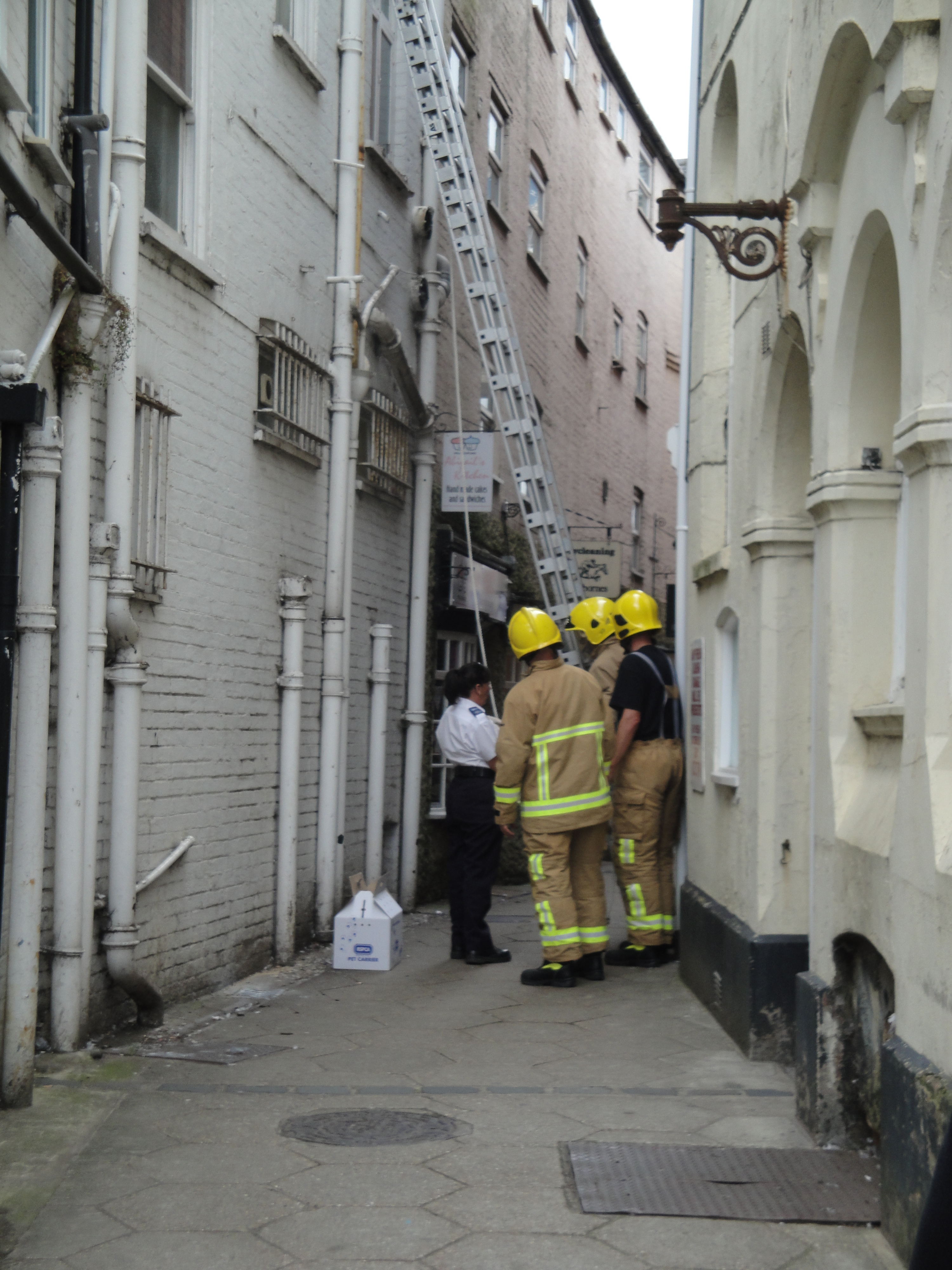 Firemen and an RSPCA worker rescuing a pigeon which had become trapped above shops in Watchbell Lane, Newport, Isle of Wight in August 2011.